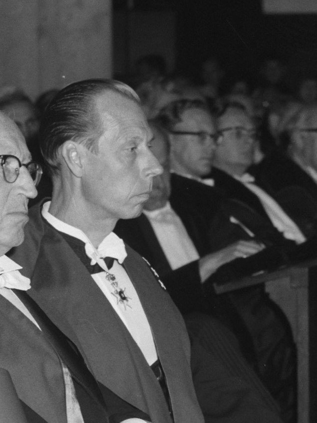 Geo Widengren during the honorary doctorate ceremony, Amsterdam University, 1962